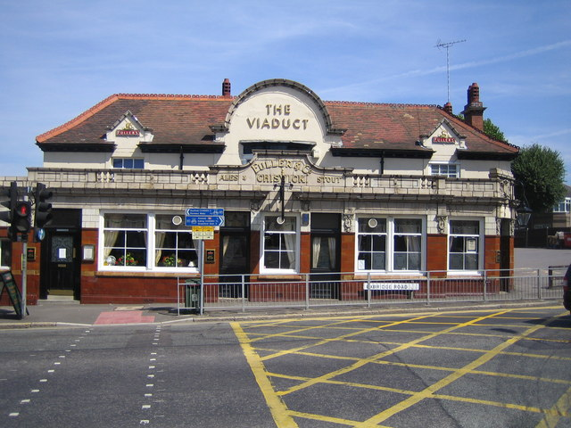 Hanwell: The Viaduct. Classic Fuller's Public House facade, all glazed brickwork, pediments and balustrades, in the Uxbridge Road. The pub's website is here The name of the pub comes from the Brunel-designed Wharncliffe Viaduct a few hundred metres away to the north.